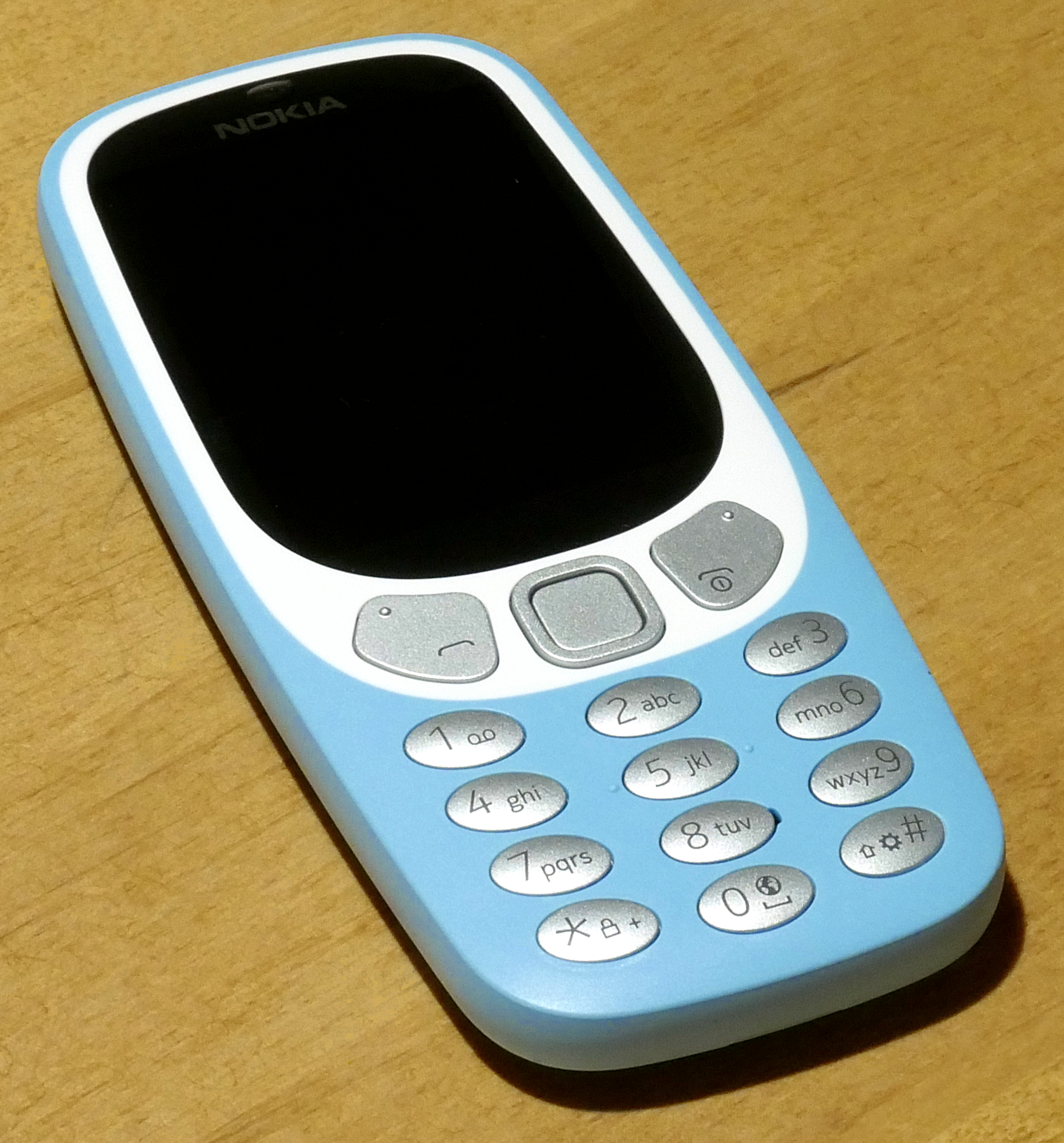 Nokia 3310 3G -mobile phone.